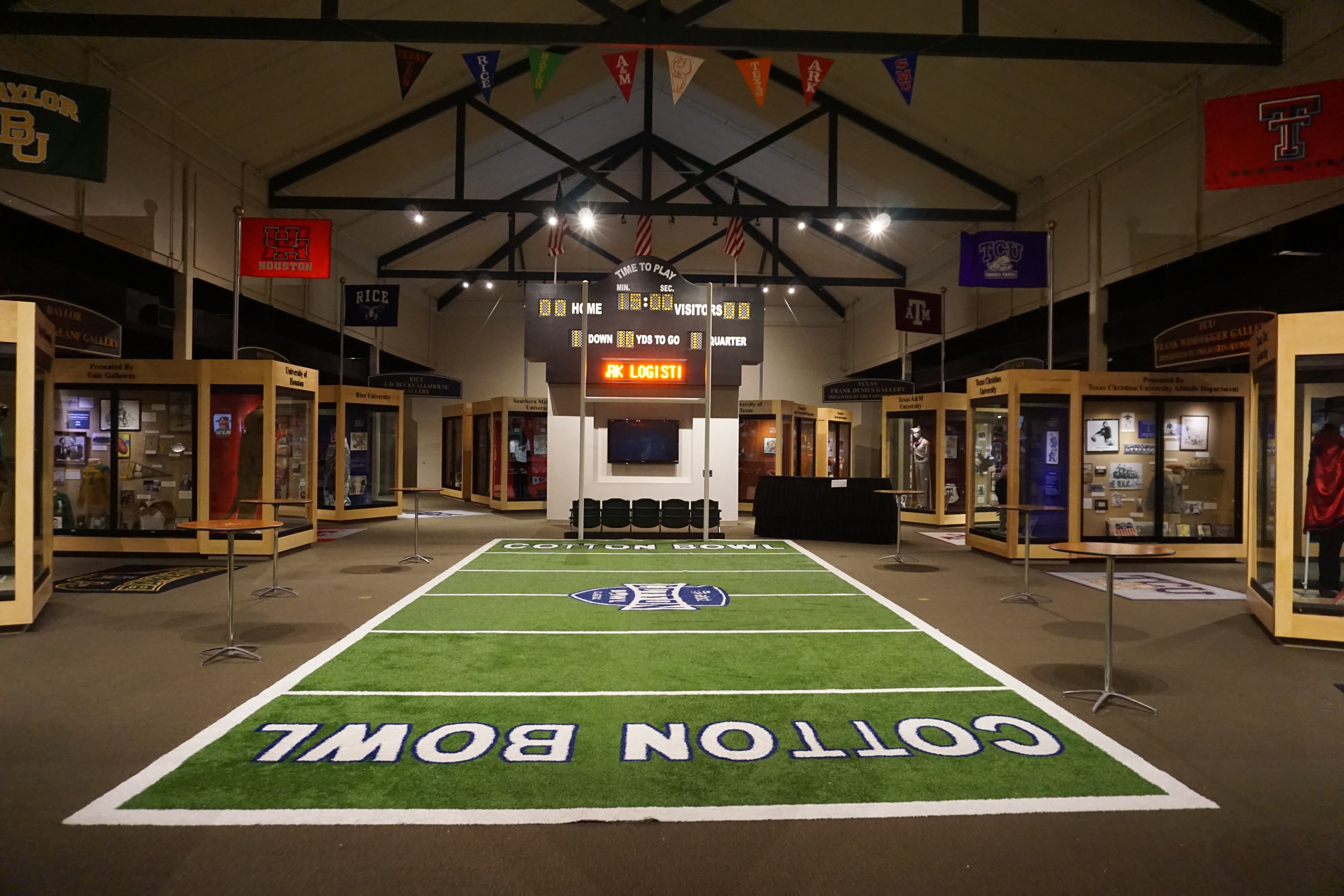 The Southwest Conference Gallery and Cotton Bowl Exhibit at the Texas Sports Hall of Fame in Waco, Texas (United States).